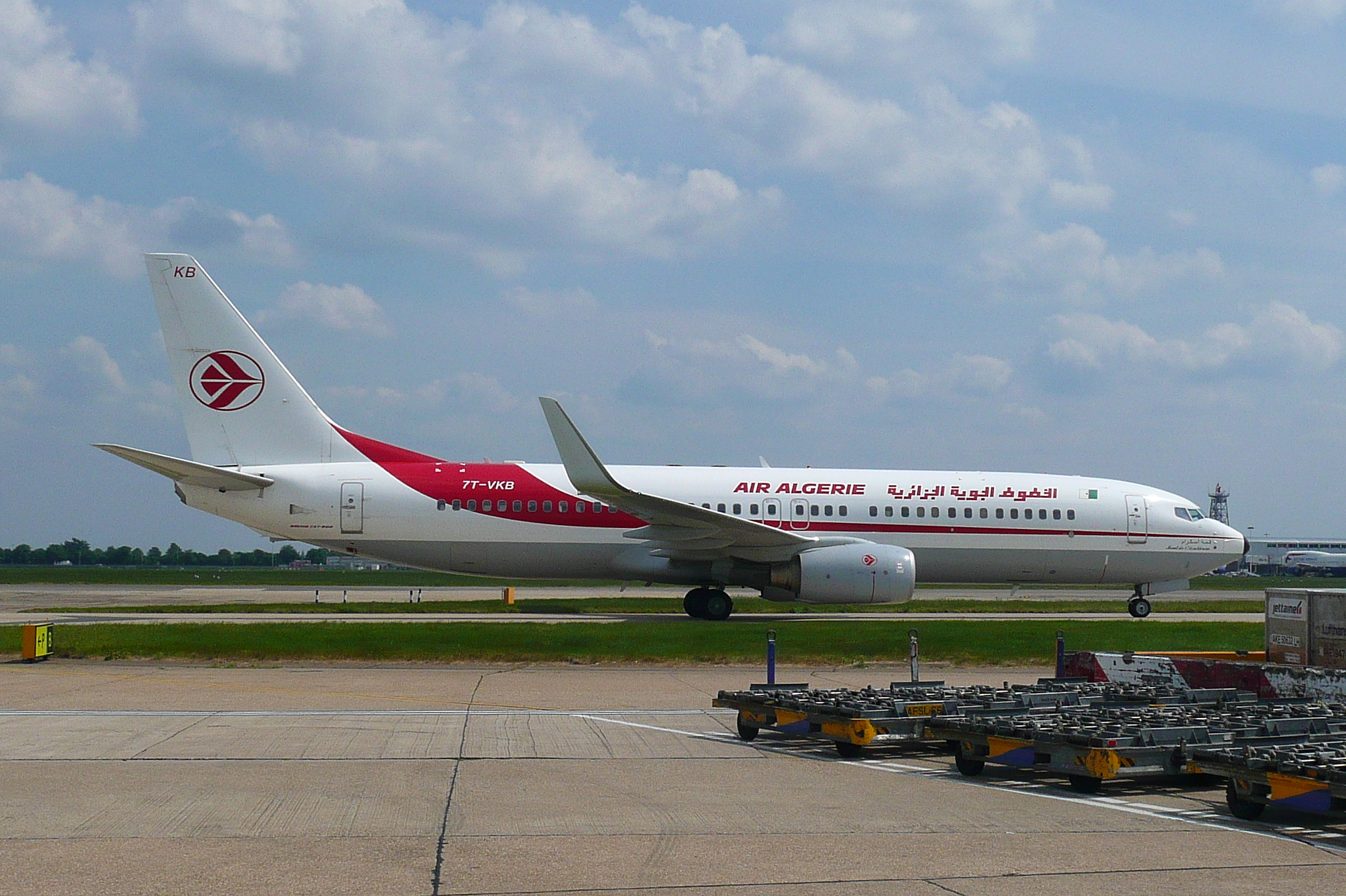 7T-VKB B738 Air Algerie sliding past the top of the Echo's